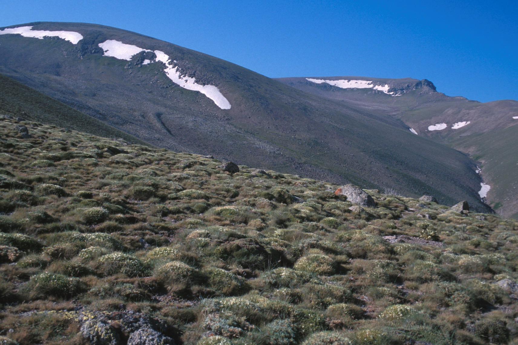 Thorn cushion heath with dominant Astragalus angustifolius on Melendiz Dag (Nigde), c. 2000 m s.l. . From: G. Pils: Flowers of Turkey - a photo guide.- 448 pp.– Eigenverlag Gerhard Pils (2006).